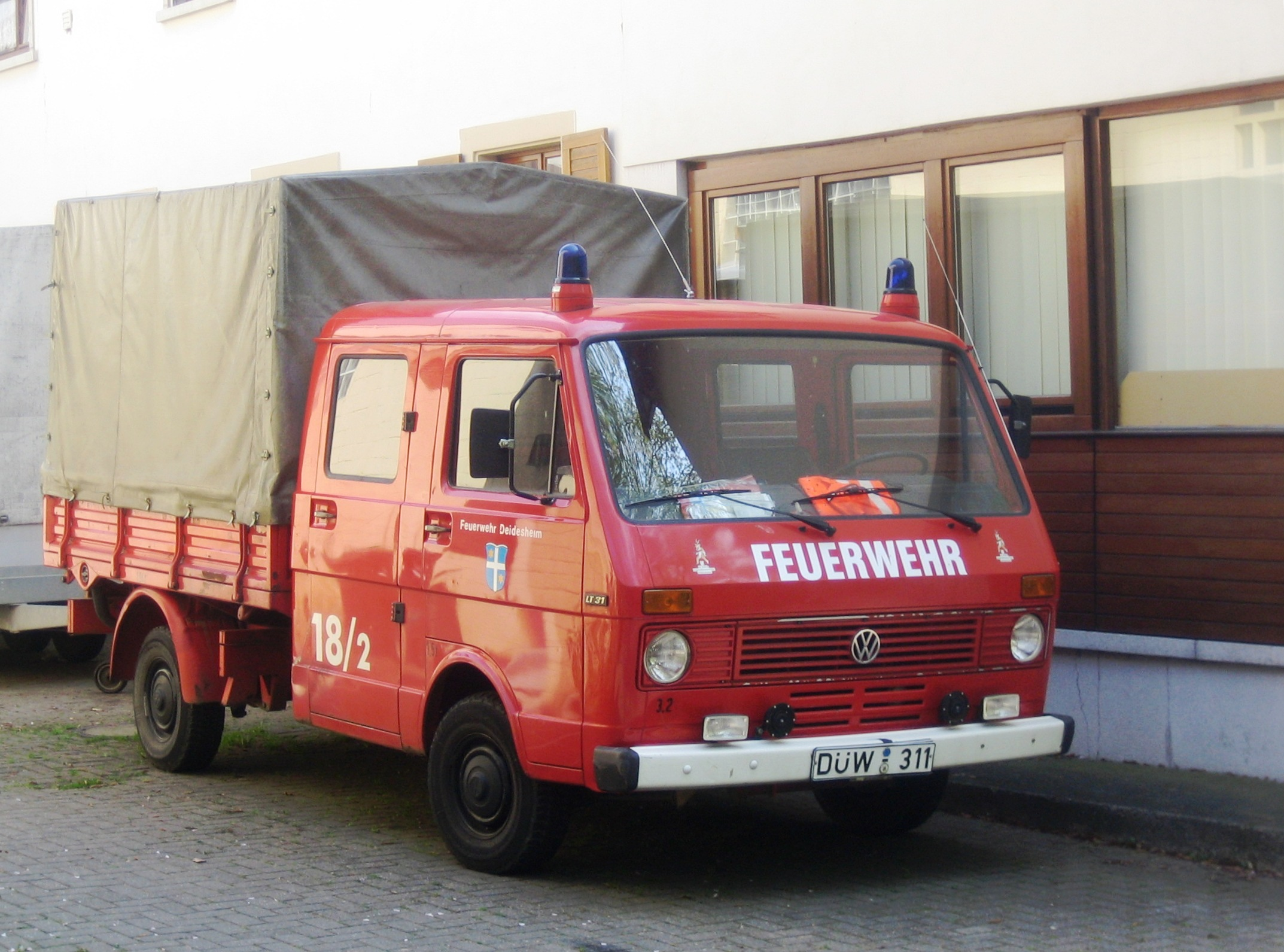 I took this photograph, myself in April 2007 and hereby release it into the public domain to the full extent possible in relevant jurisdictions. The fire truck appears to be in daily use, though it must be about 25 years old.